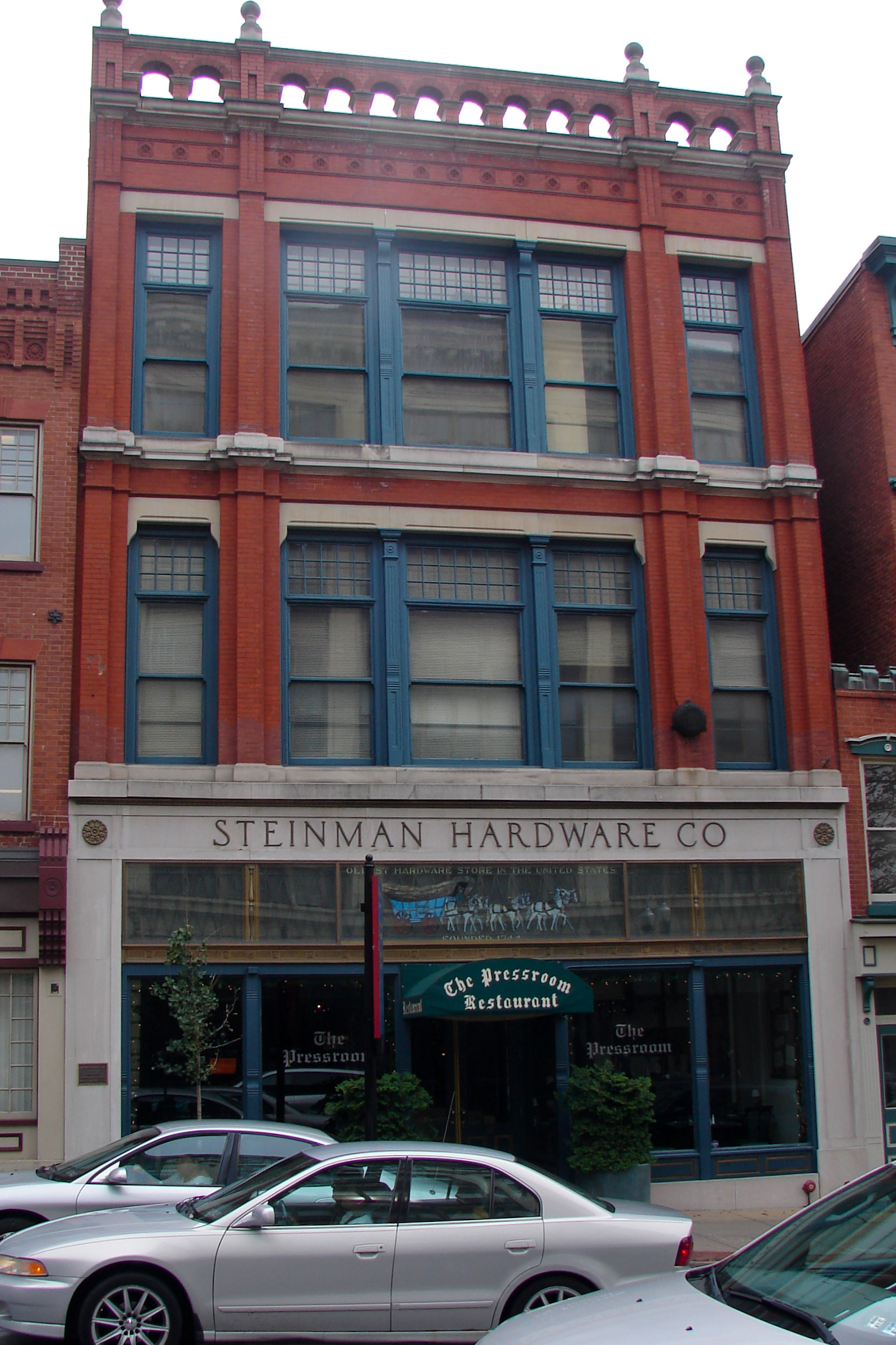 Steinman Hardware Store on the NRHP since October 18, 1979. At 26–28 West King Street in the Central Business District of Lancaster, Pennsylvania.